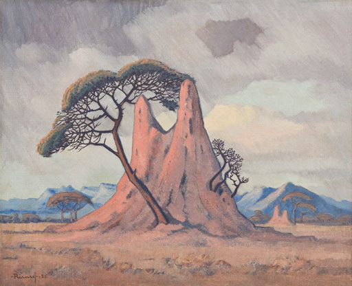 Pierneef, Jacob Hendrik. South West African Landscape with Termite Hill, Umbrella Trees and Mountains in the Background